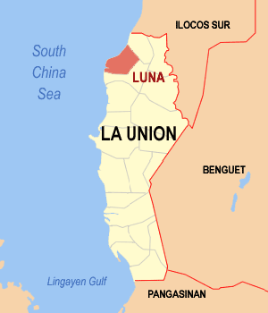 Map of La Union showing the location of Luna